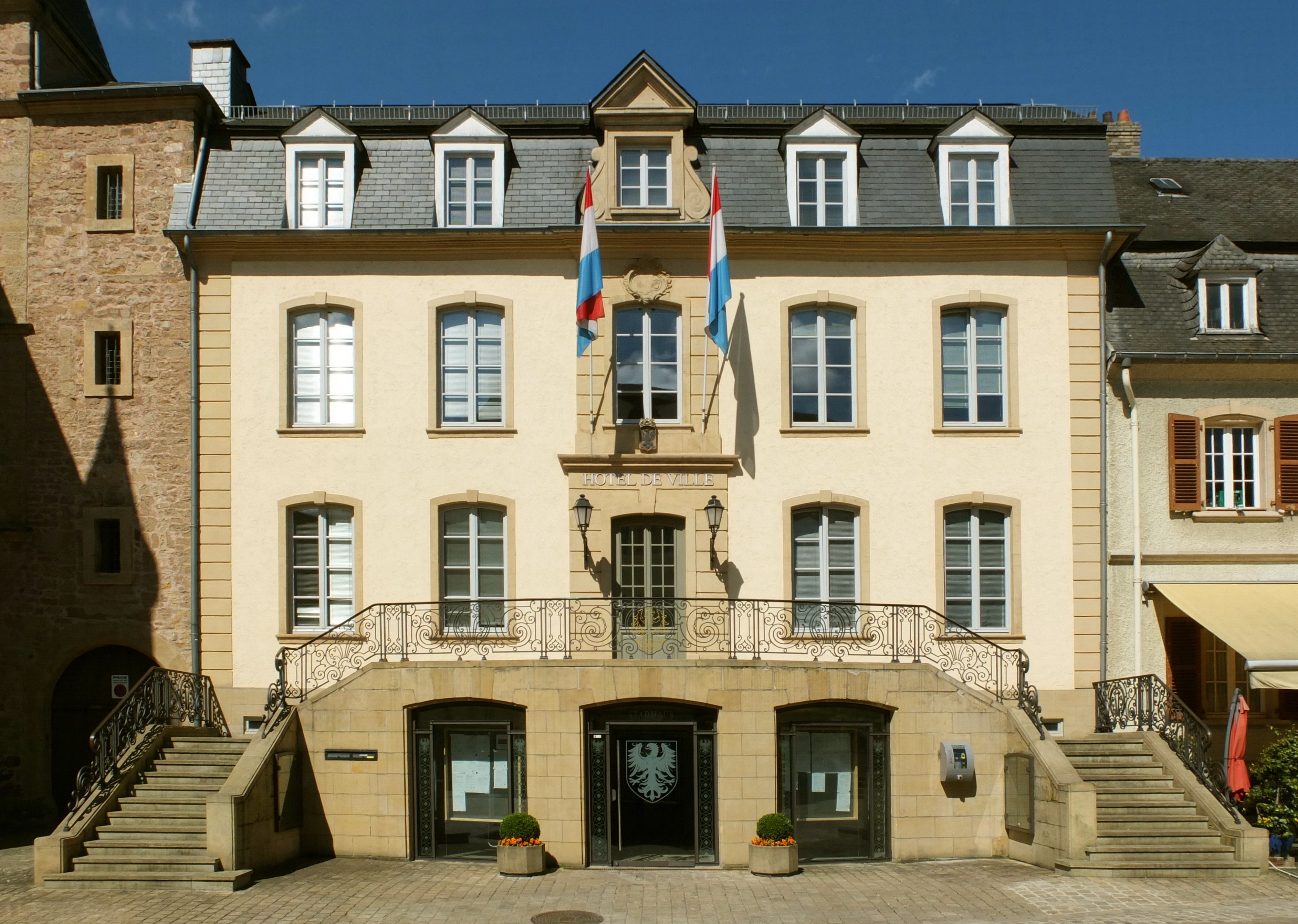 Town hall in Echternach, Luxembourg (view SE)